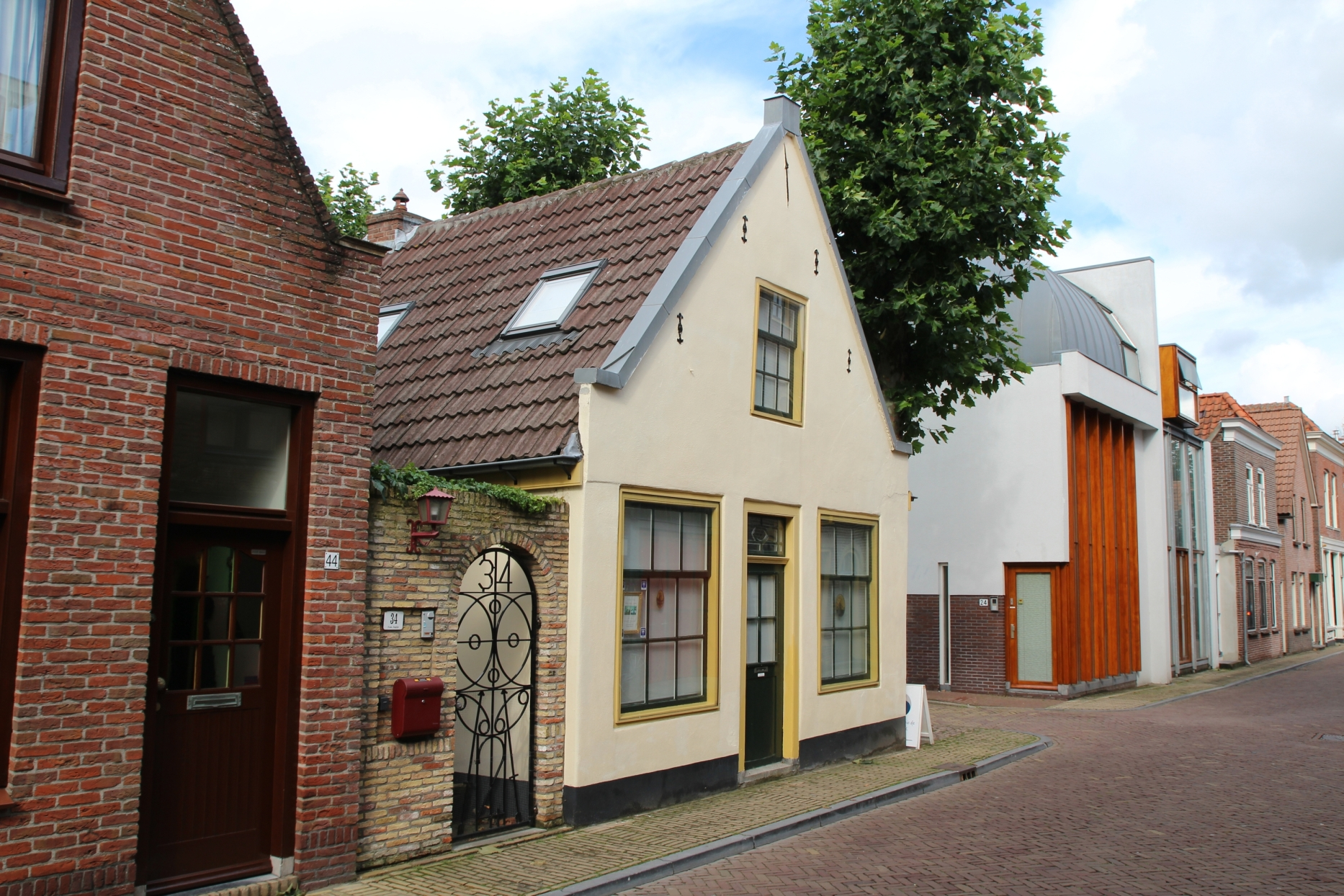 House of Provenhuis Aletta Boon, in use between 1865 and 1948.